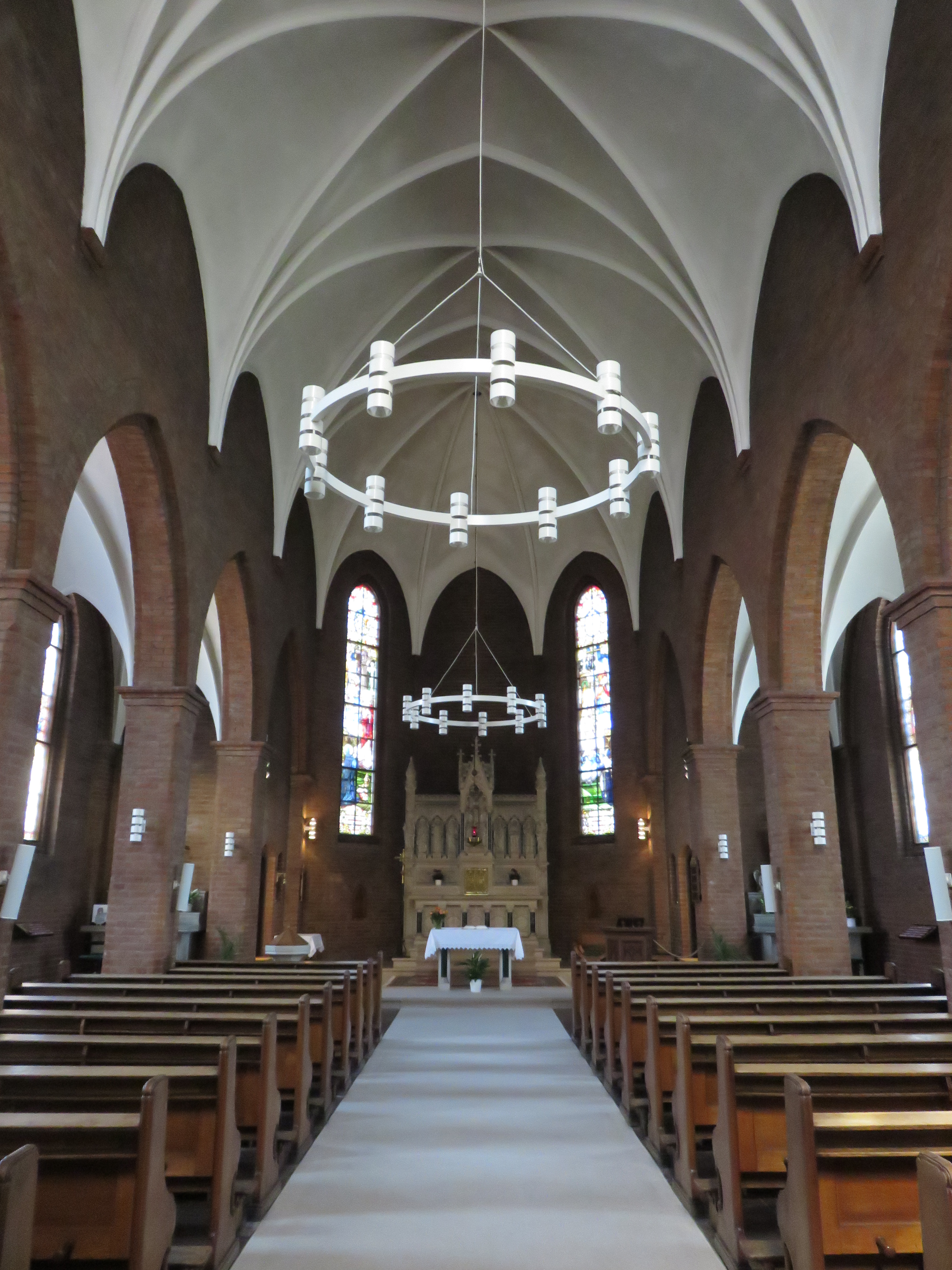 Interior of St. Vincent's Church in Helsingør, Denmark in 2018